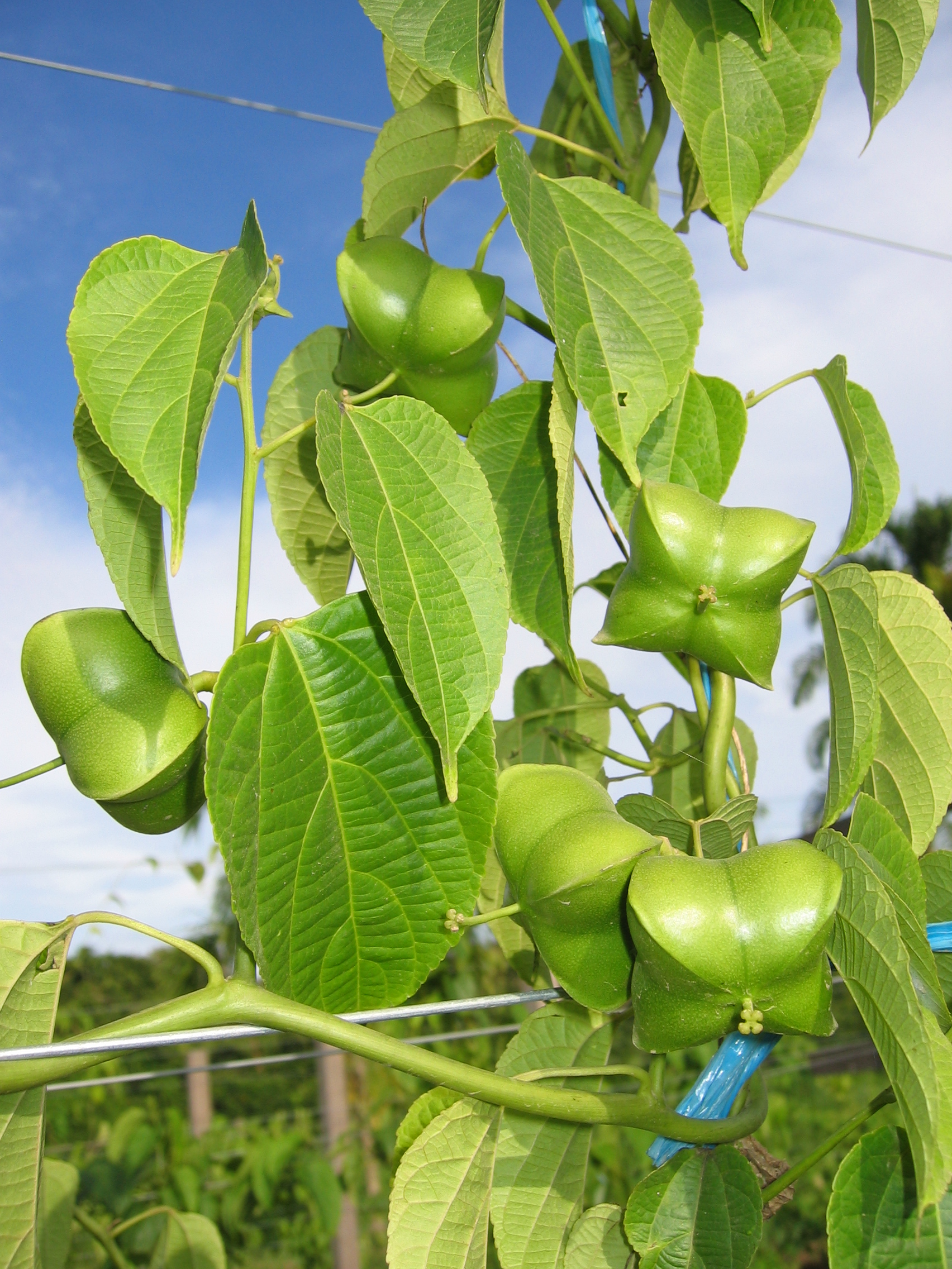 Sacha Inchi is an indigenous species from the Amazon that produces edible seeds with a high content of Omega fatty acids. Location: Pucallpa, Ucayali, Peru.